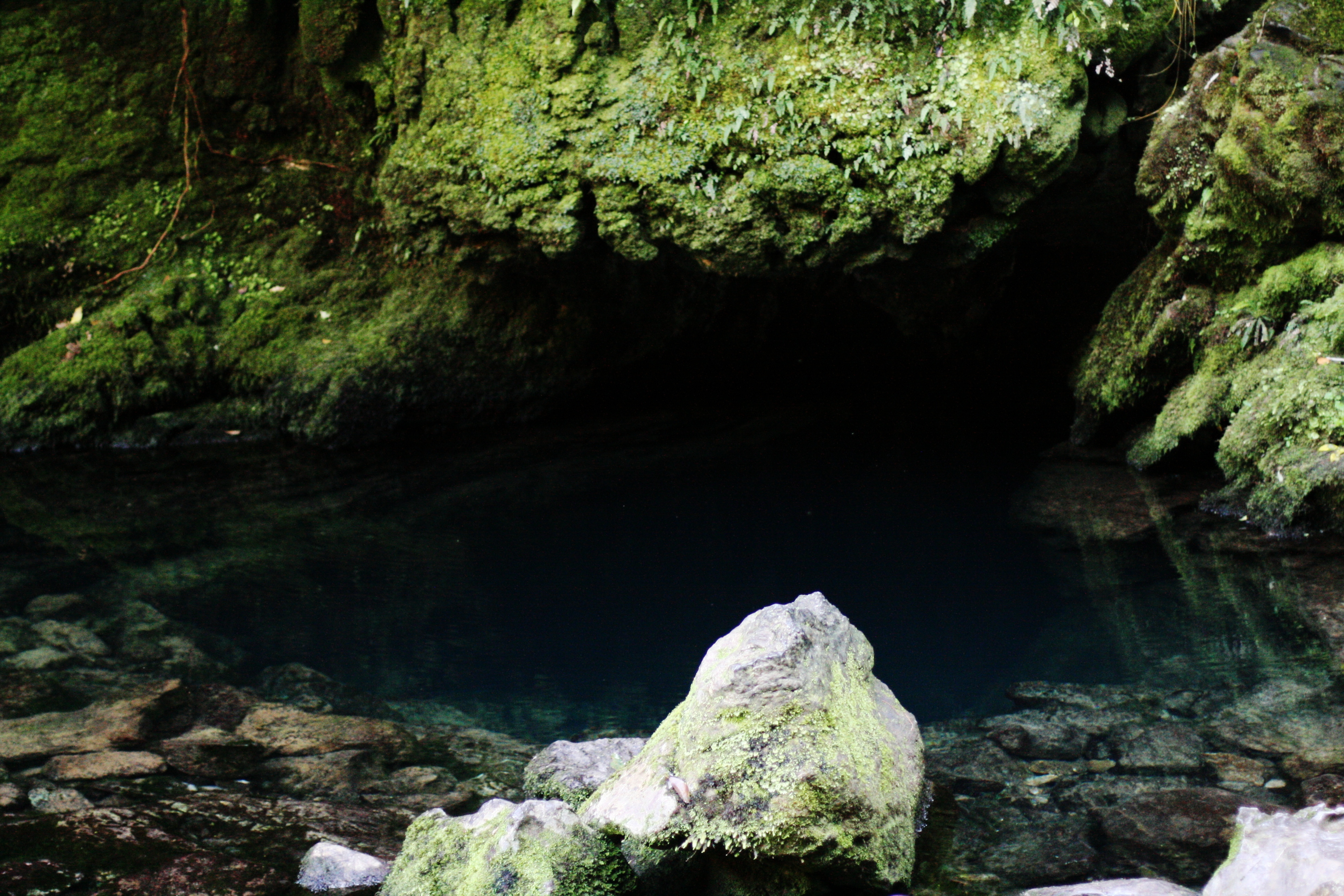 The opening of a spring at the foot of Takaka Hill in New Zealand